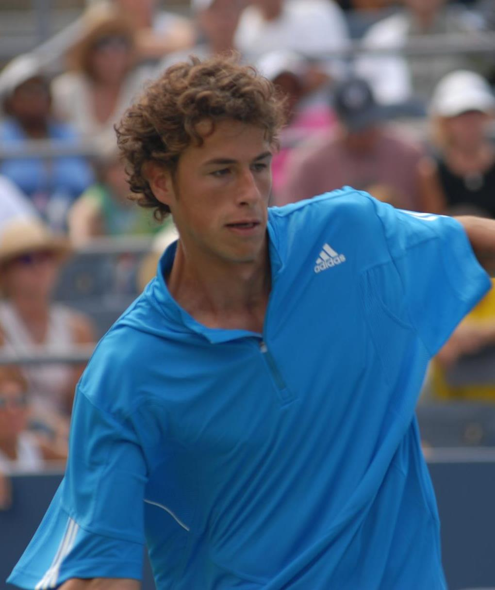 Robin Haase at 2007 US Open